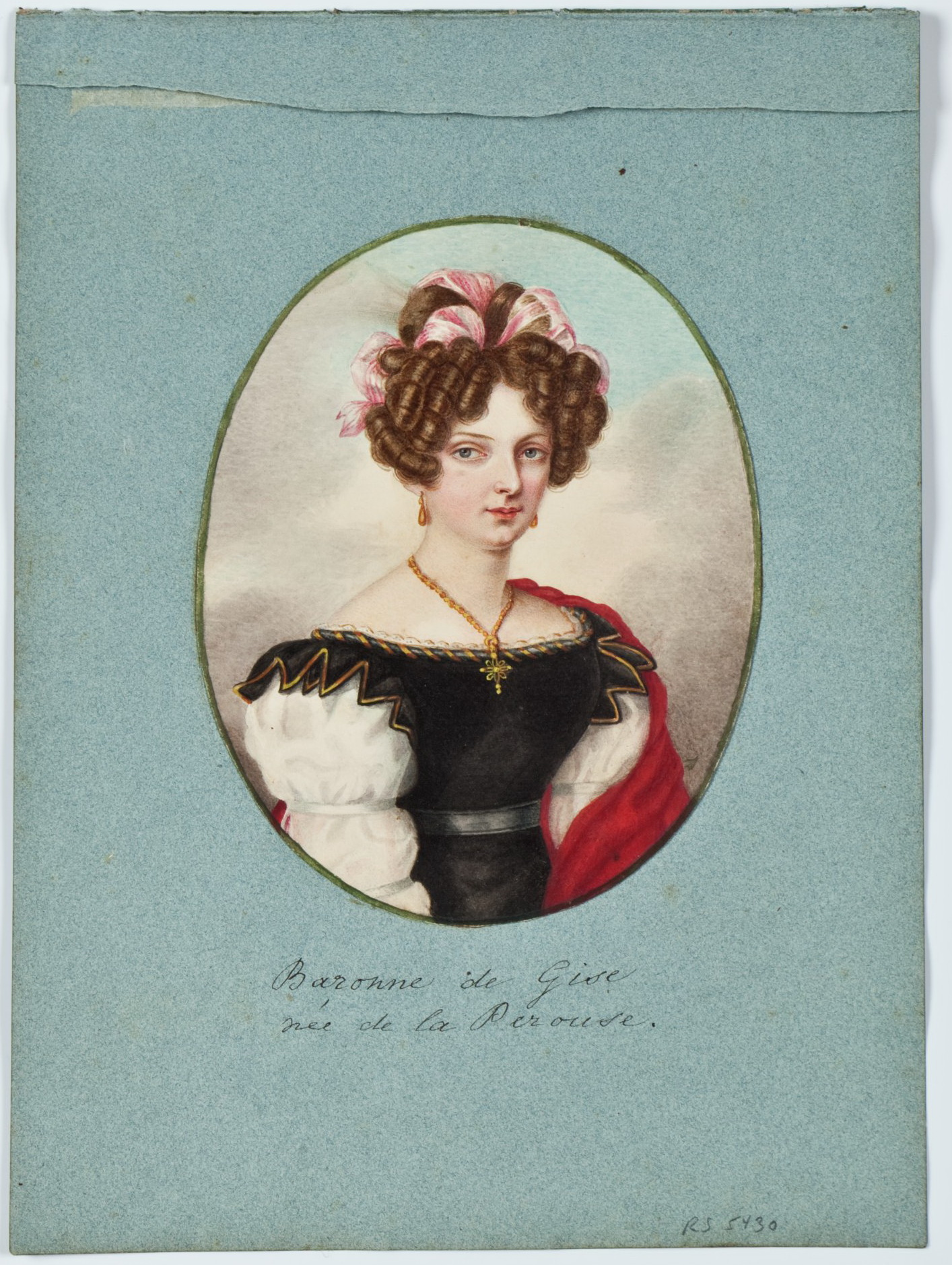 The Middleton Watercolor Album consists of a collection of 45 watercolor portraits bound in leather covers with neo-gothic embossing and a gilt bronze clasp in the same style. The album relates to the Middleton family of South Carolina, from which it descended until Hillwood purchased it in 2004. Williams Middleton—who was secretary to his father, Henry Middleton, the American minister to St. Petersburg from 1820 to 1830—assembled this album. The artist of many of the watercolors, most of which are unsigned, is likely Middleton's sister, Maria Henrietta, who studied painting during her years in St. Petersburg with her governess, Madame Mathes, who also painted miniatures. Two watercolors, including this portrait of the Countess Bobrinsky, are signed by the well-known Russian watercolorist Petr Sokolov. The portraits are of Russians and people in the foreign community who were close associates of the Middleton family. Their portraits provide an extraordinary commentary on the fashion and hairstyles of the 1820s.